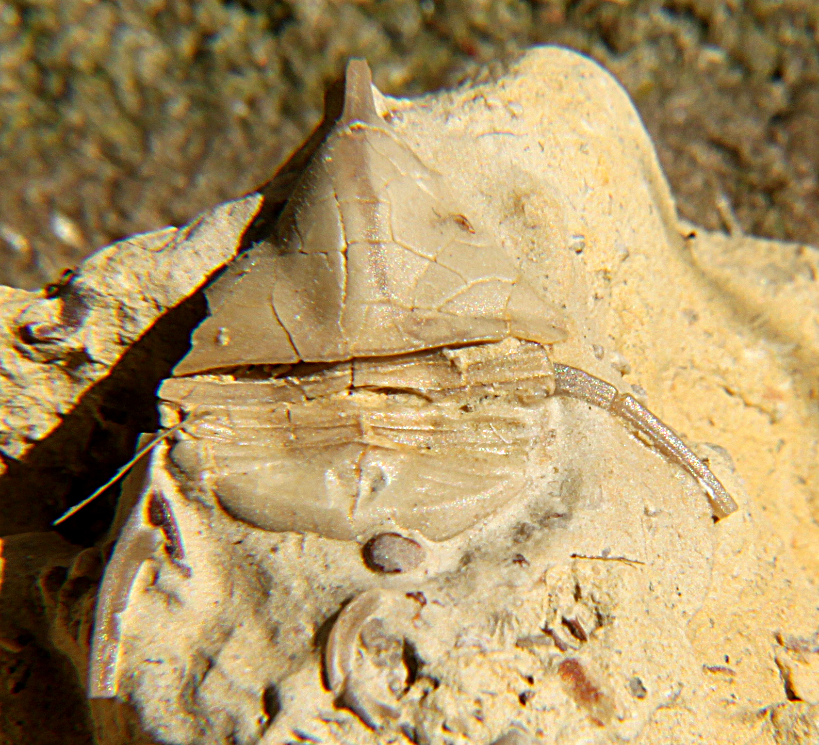 A Lonchodomas mcgeheei trilobite, Order Asaphida, Family Raphiophoridae, 13mm along the axis disregarding glabellar and genal spines, Bromide Formation, Carter County, Oklahoma, USA, Upper Ordovician (Sandbian)